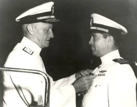 LCdr Klakring (r) receives the Navy Cross from Admiral Nimitz.